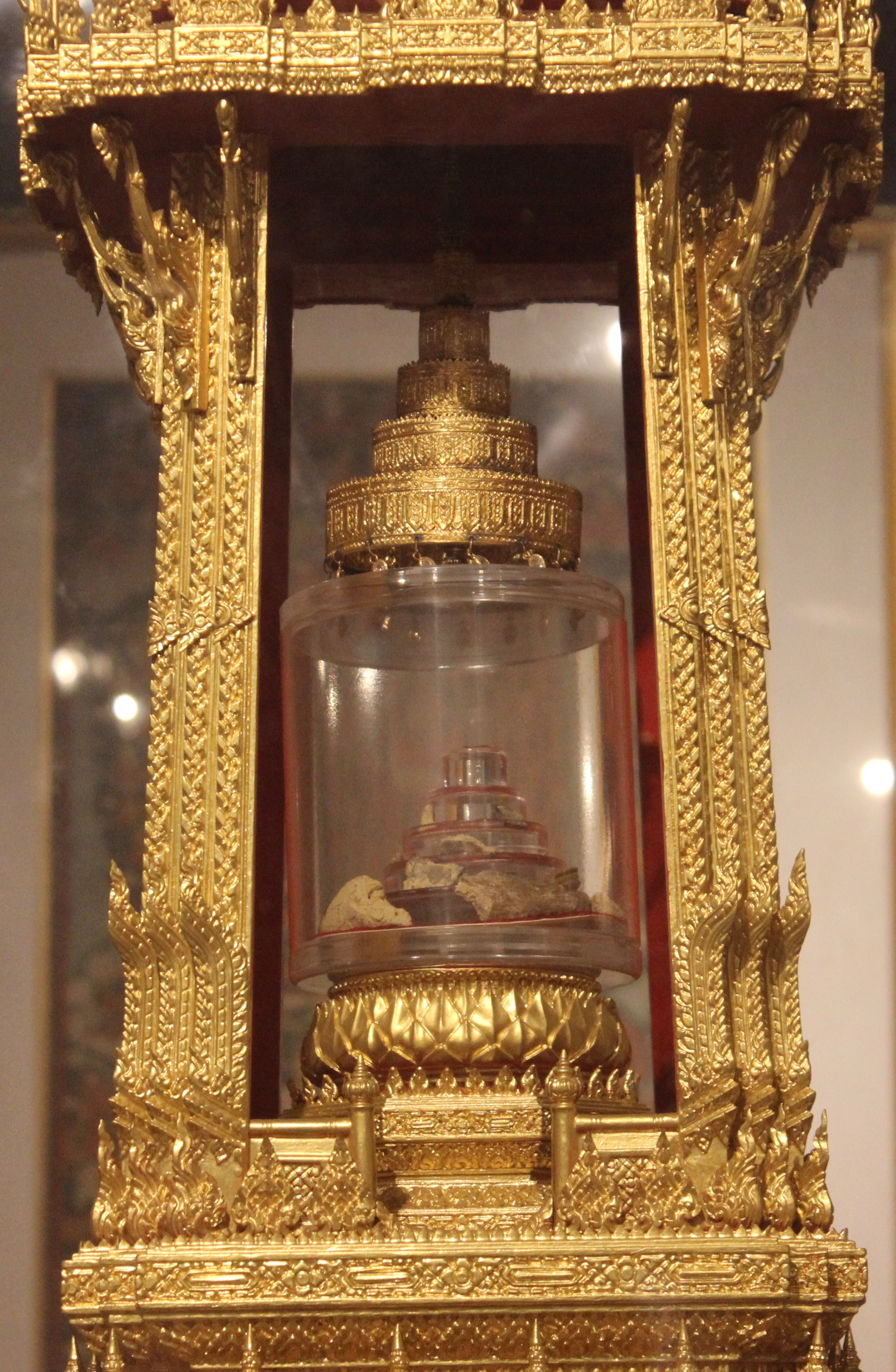 buddha's relic preserved in the museum